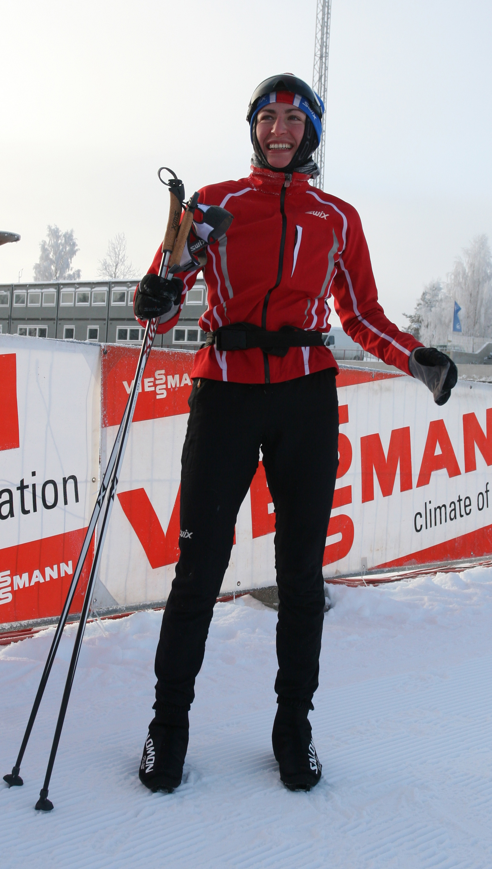 Justyna Kowalczyk in Otepää